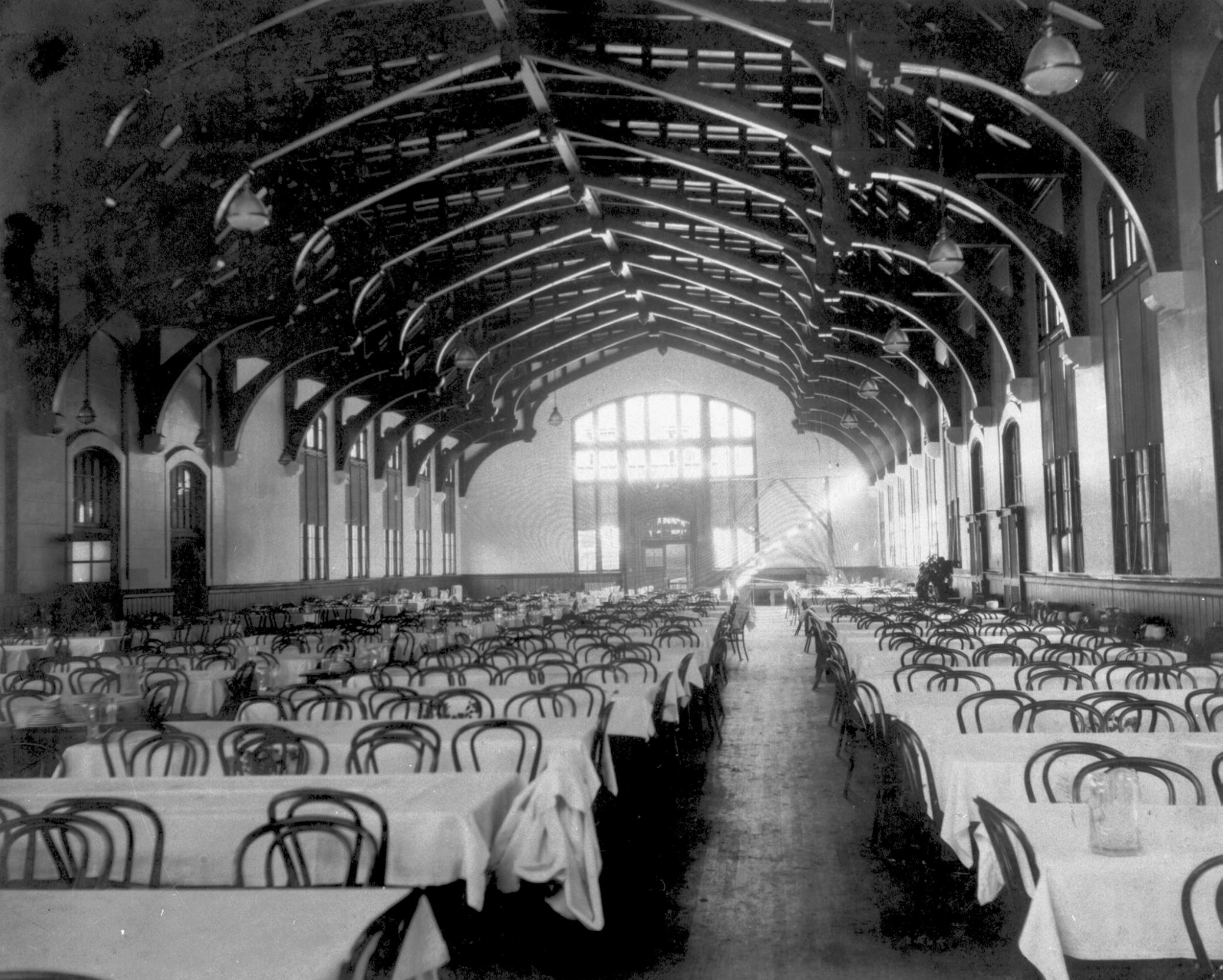 A historic photo of inside Johnson Hall at the University of Florida